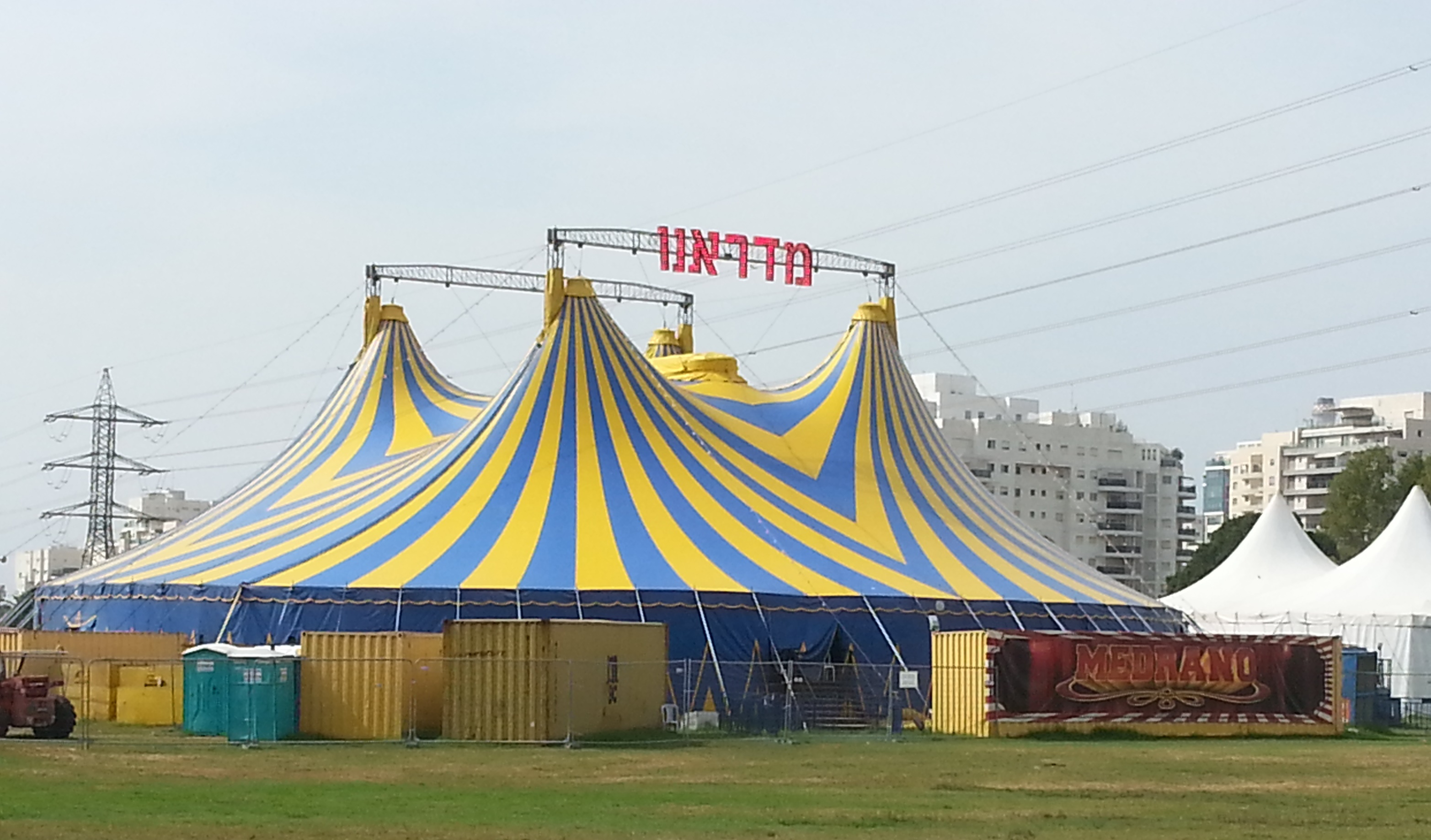 Medrano circus - Tel Aviv 2015